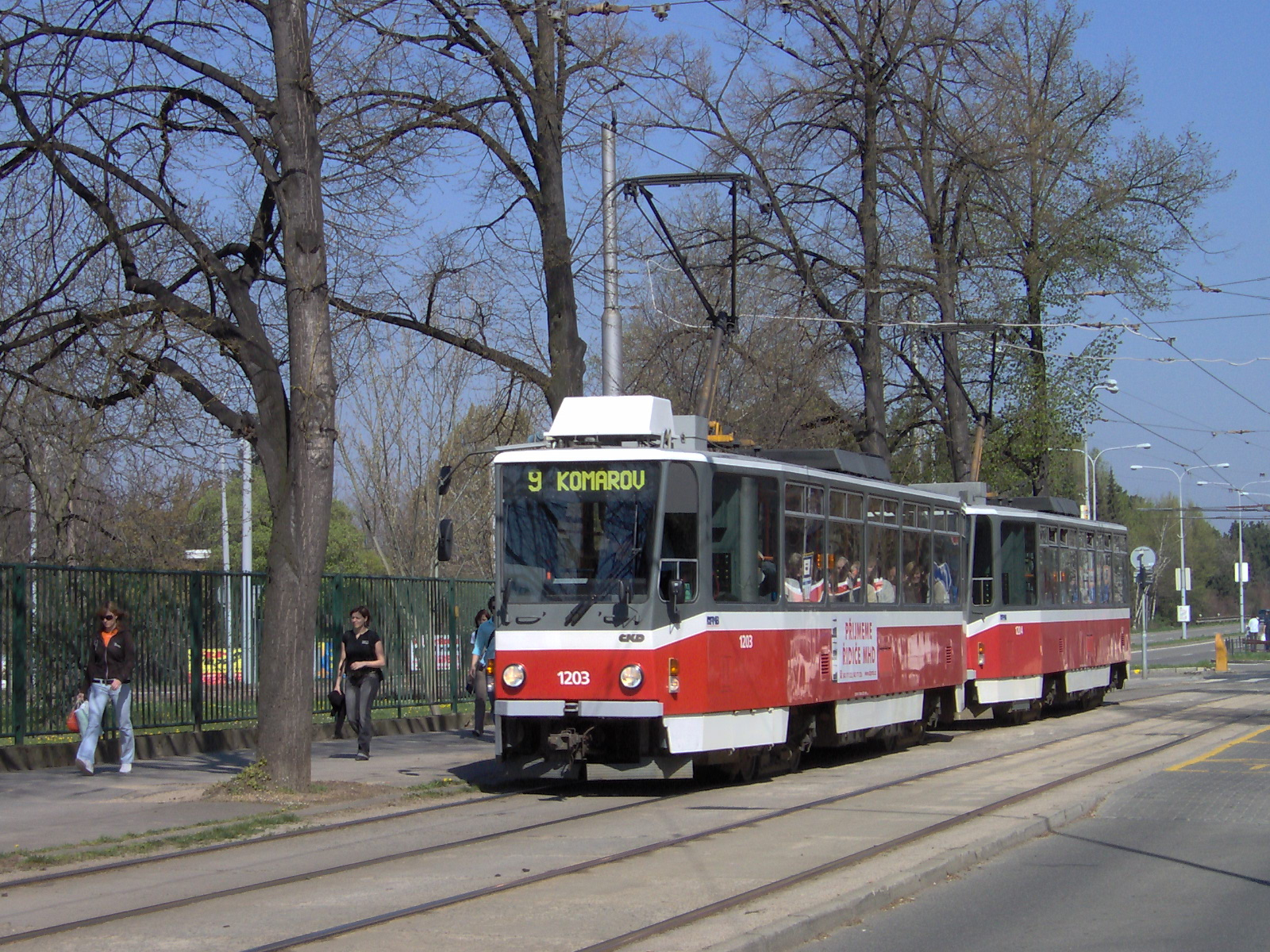 Tatra T6A5 trams in Brno, Czech Republic